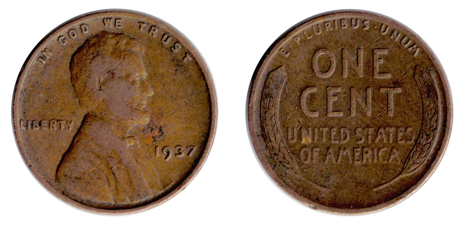 900 DPI scan of a 1937 Wheat cent ("Wheat Penny"), self-made. The image on the left is the front of the coin, picturing Abraham Lincoln. The image on the right is the reverse side, picturing two wheat pieces along the left and right sides.